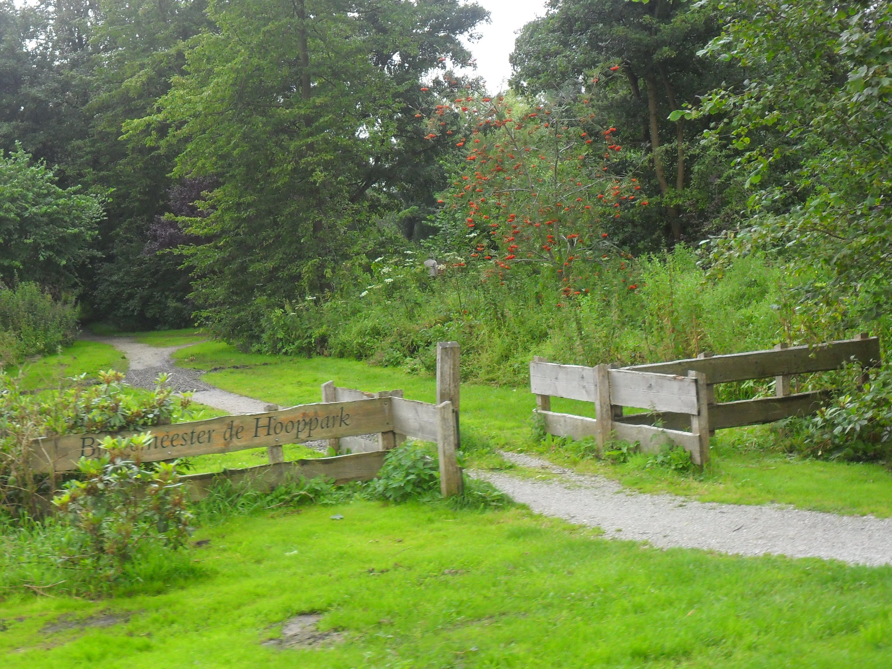 Entrance of Mayor de Hoop-park, Sneek.